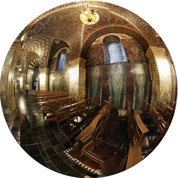 Simulated fisheye photograph of the interior of one of Germany's most renowned cathedrals, the "Aachener Dom" in the city of Aachen. The photo was taken with an Android Smartphone and originally consists of a dozen photo segments stitched together using the Google Camera App. It's not a real fisheye photograph because it uses no special fisheye lens. Photo by Maximilian Schönherr.